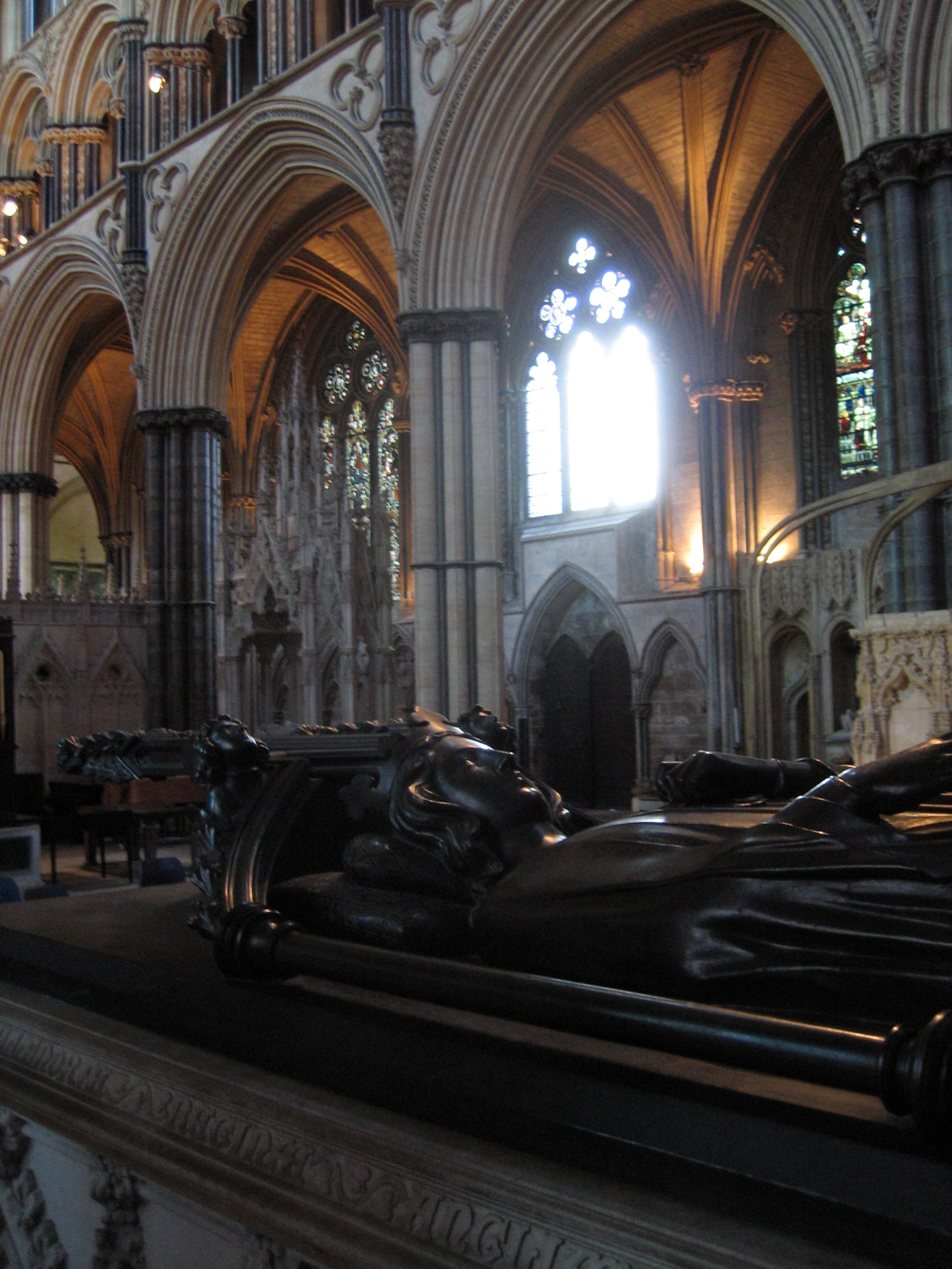 Eleanor of Castile, viscera tomb at Lincoln Cathedral